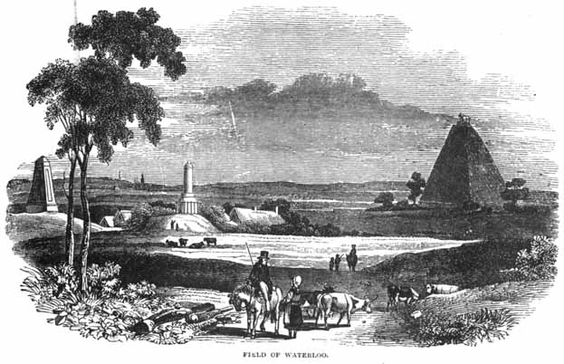 The battlefield of Waterloo and its monuments as depicted by an artist.